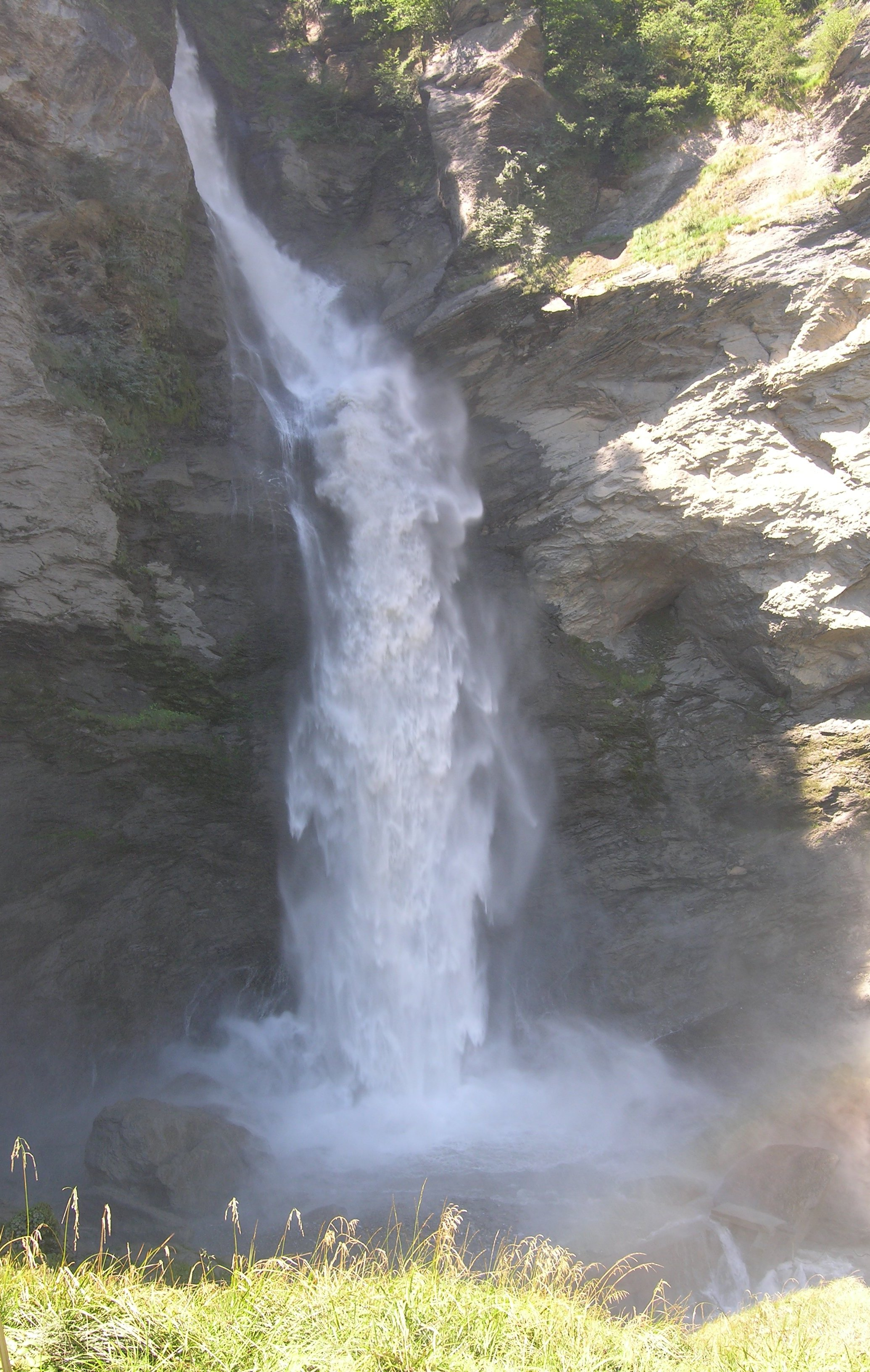 Reichenbach waterfall near Meiringen. The place of the last fight between Holmes and Moriarty.